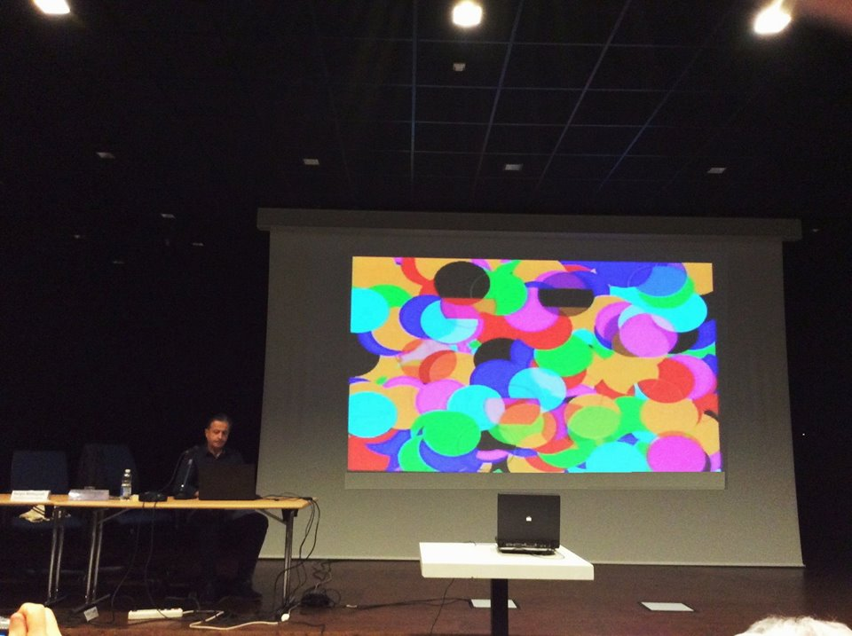 "Circus Mix" generated live exhibition, with retro notebook: Dell Latitudine CPt-Win2000- Centro per l'Arte Contemporanea Pecci, Prato.